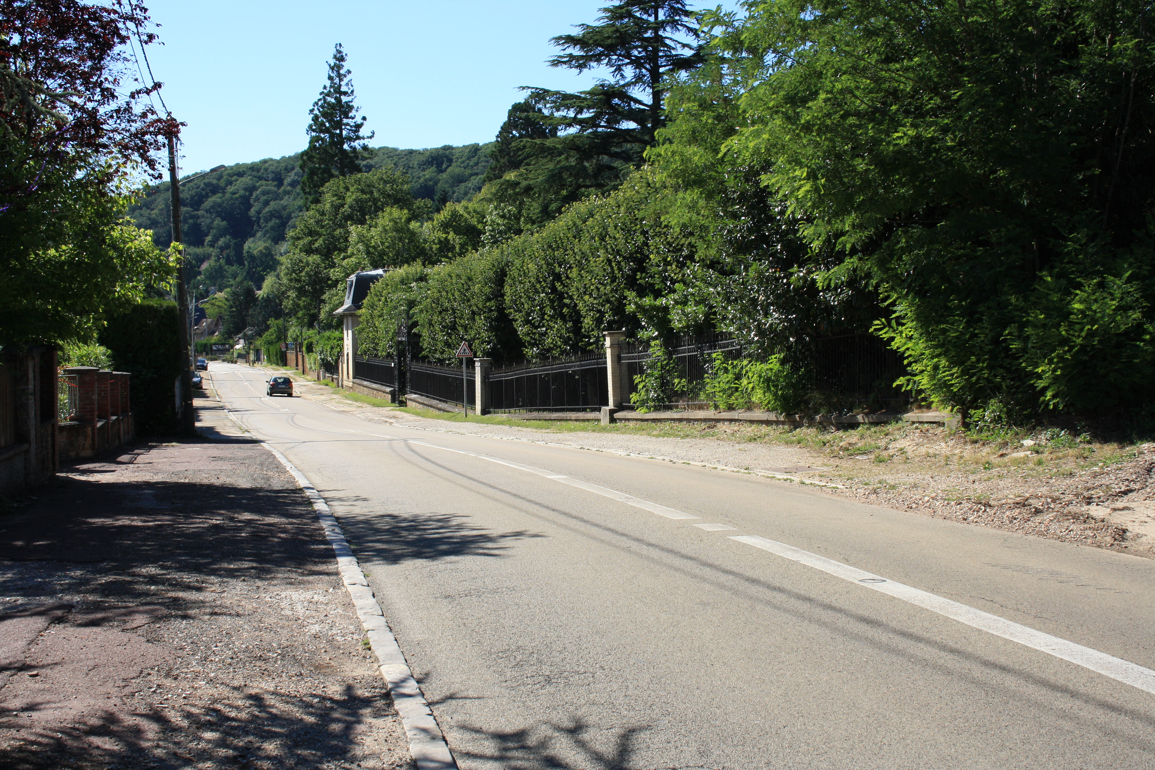 Street "Rue de Paris" in Saint Remy les Chevreuse, France